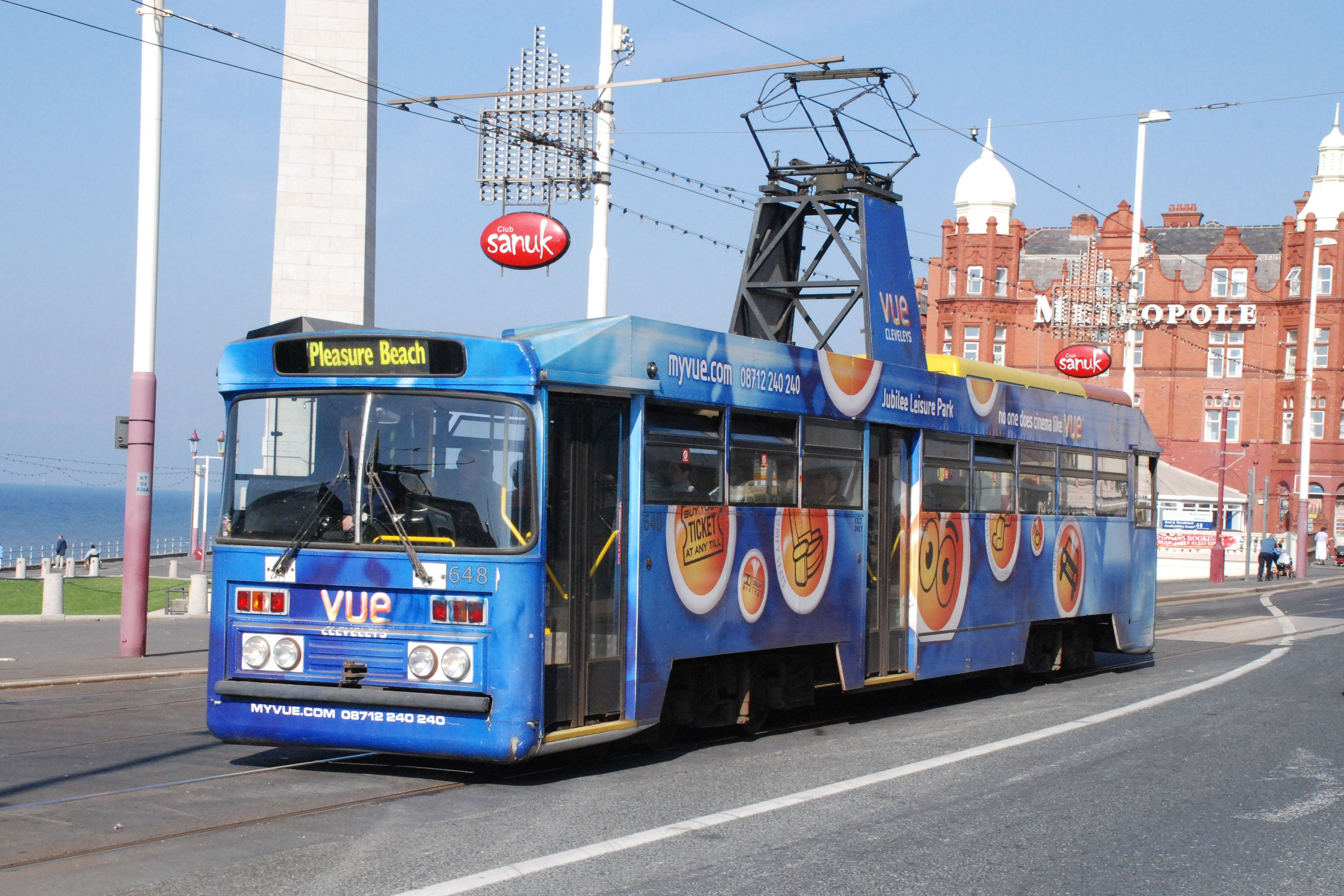 Centenary Car~East Lancs~1990 at Blackpool, North Pier on 27th September 2008. Blackpool Transport, No.648.